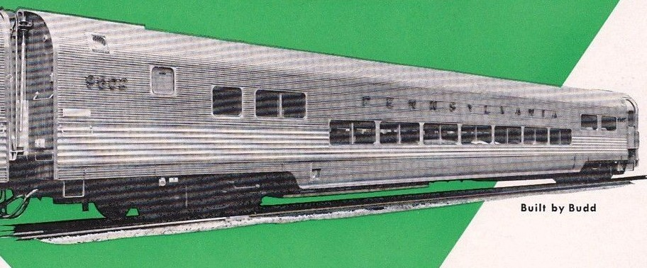 Ad from Railway Age for General Steel Castings featuring a photo and information about The Keystone, which was the newest train on the Pennsylvania Railroad at the time. One of the train's passenger cars is pictured.